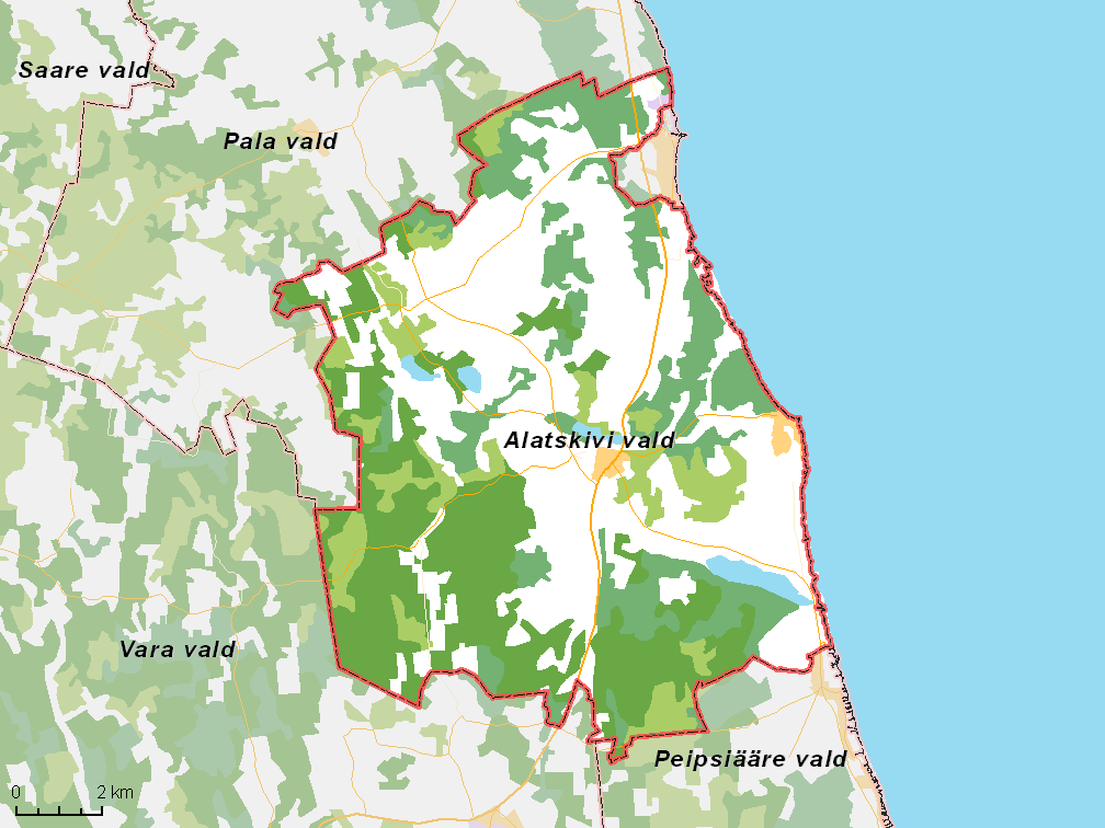 Map of municipality in Estonia